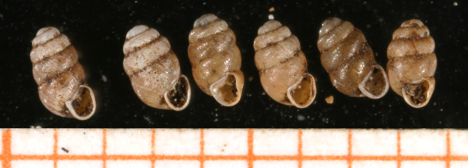 Photo of Vertigo alpestris. Scale in mm. Locality: Slovakia: Vely Sokol, Slovensky Raj. Date: 19-07-1973.